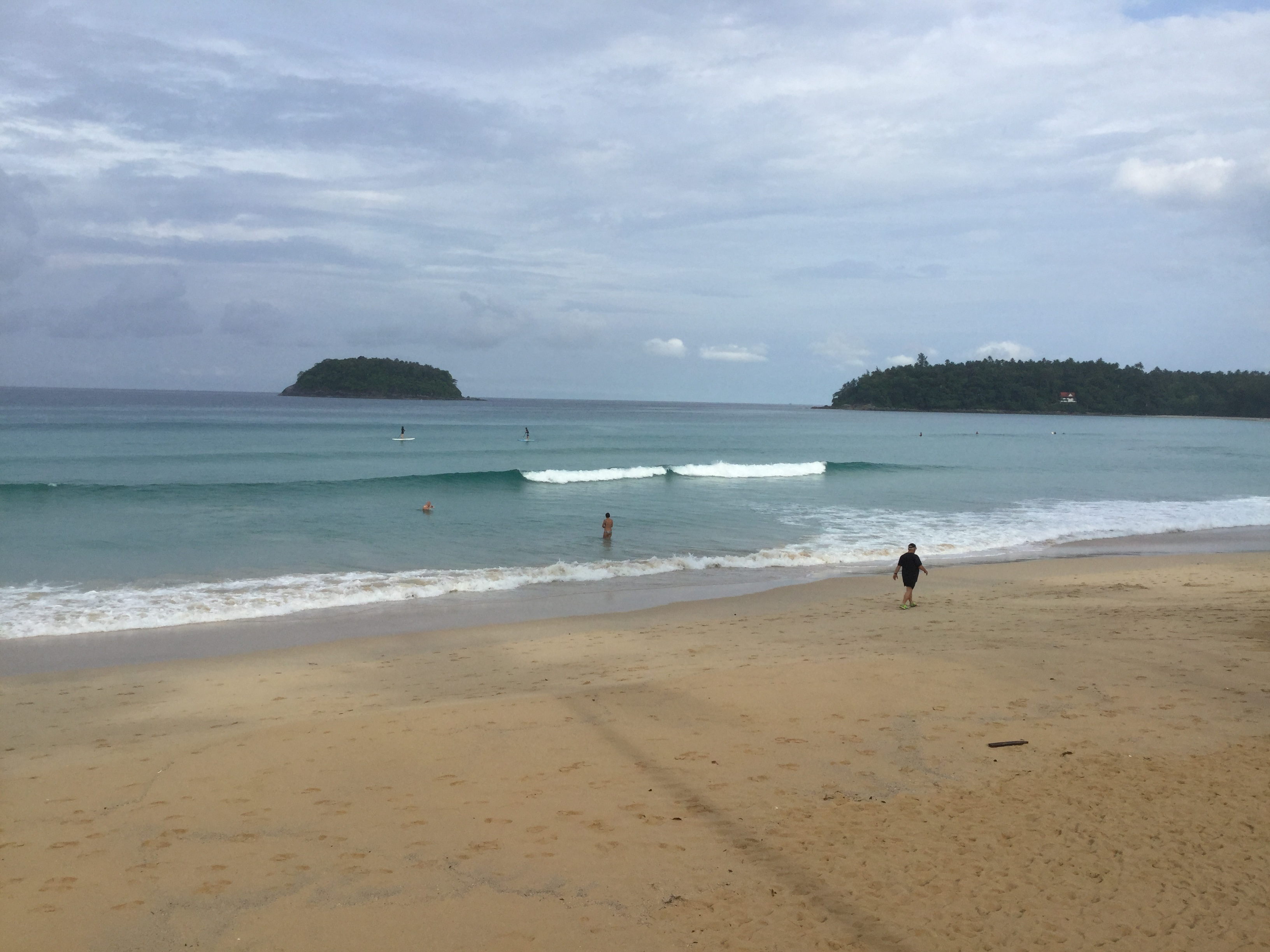 Early morning in Kata beach, Phuket, Thailand